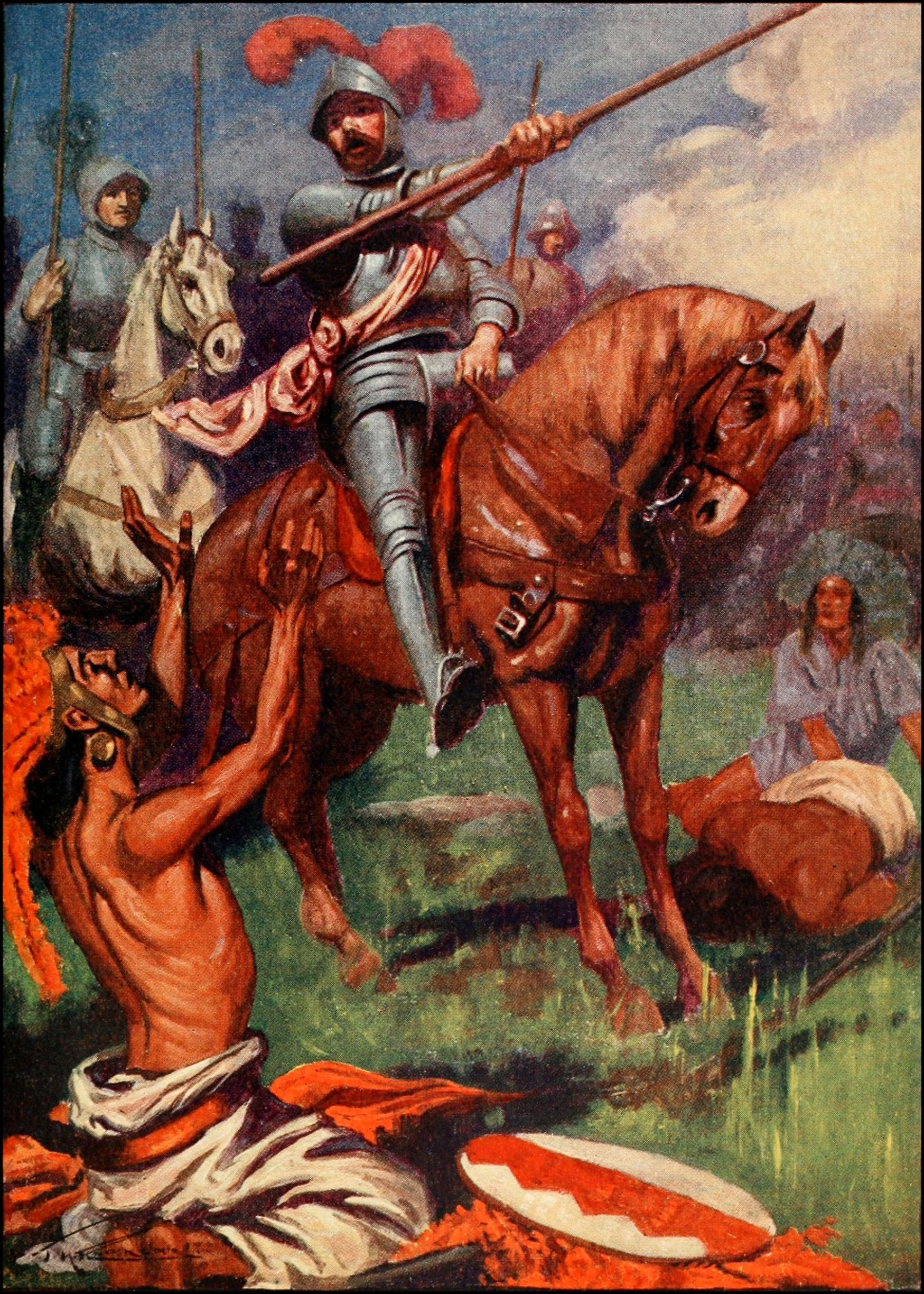 Conquistadors exhort their supporters